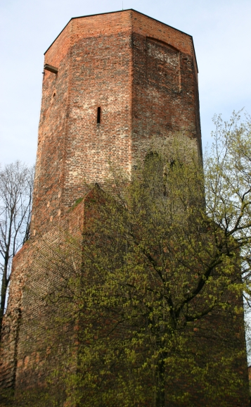 Castle tower in Ostrzeszów (Poland)